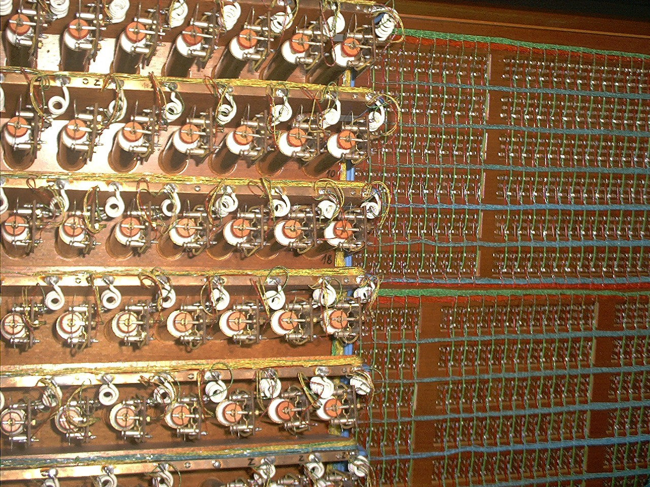 Interior view of the electric stop action (register tracker of pipe organ)